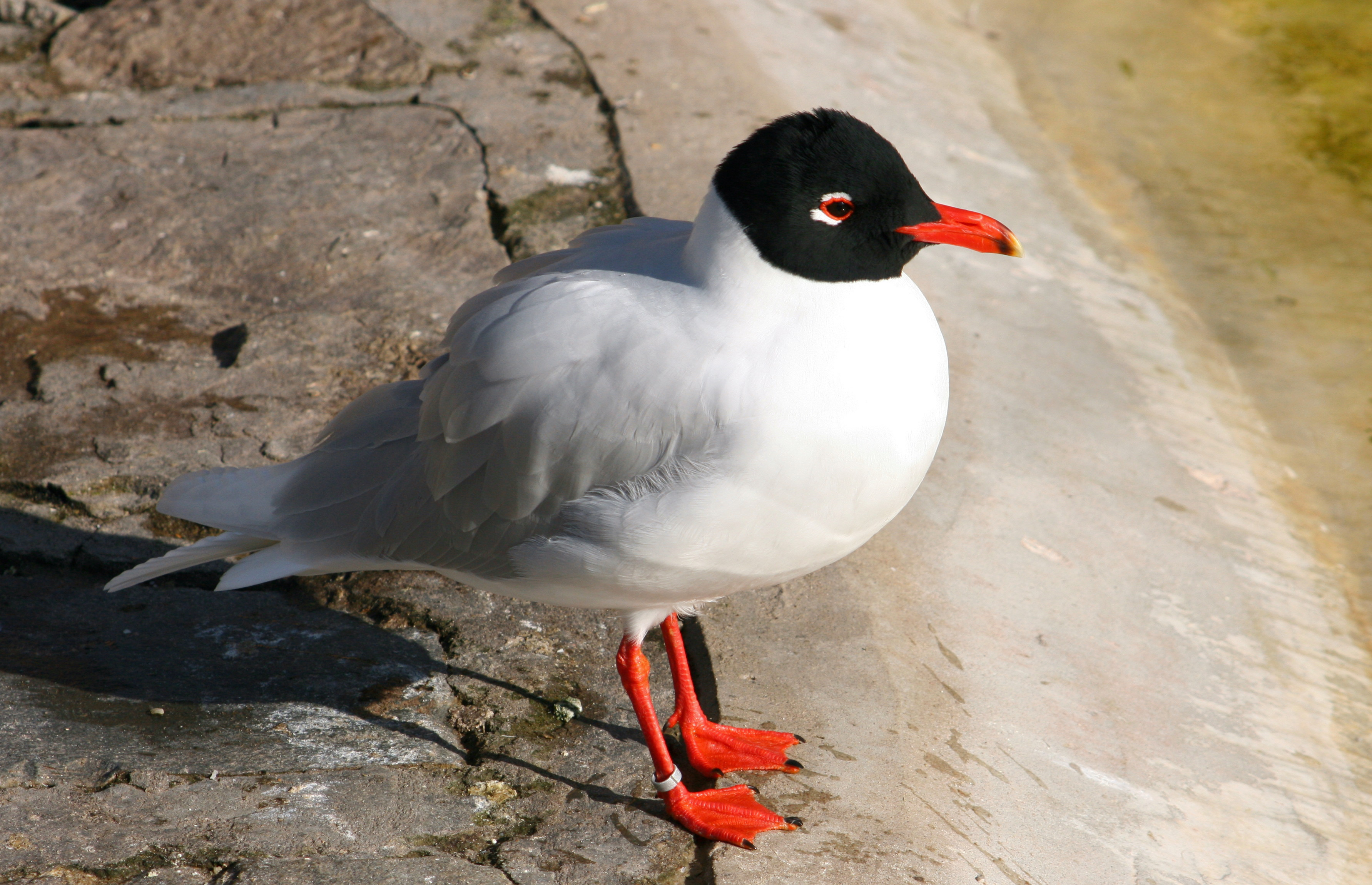 Bird of the species Larus melanocephalus. English name : Mediterranean Gull. Photograph taken in the Zwin (Belgium)